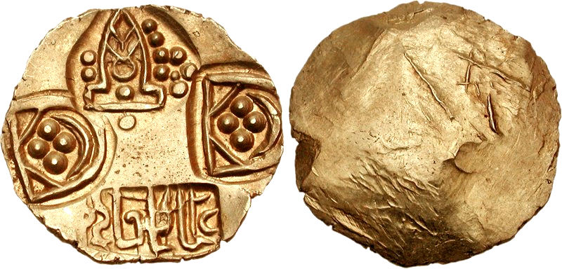 Paramaras of Vidarbha King Jagaddeva 12th-13th centuries. AV Pagoda (3.68 g). Pelleted spearhead, two sri-type designs, and “Sri Jagadeva” in Nagari /